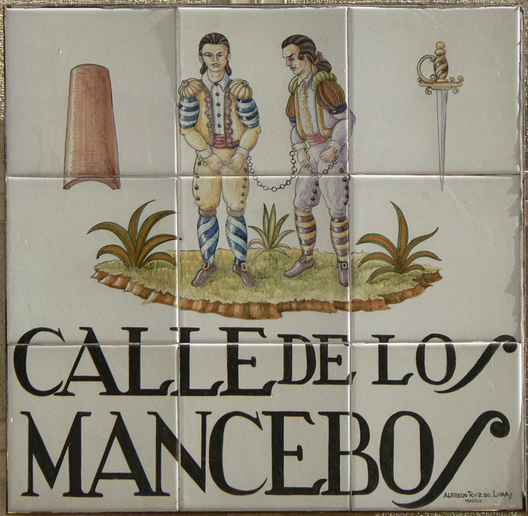 Sign of Calle de los Mancebos (street, Centro district) in Madrid (Spain).